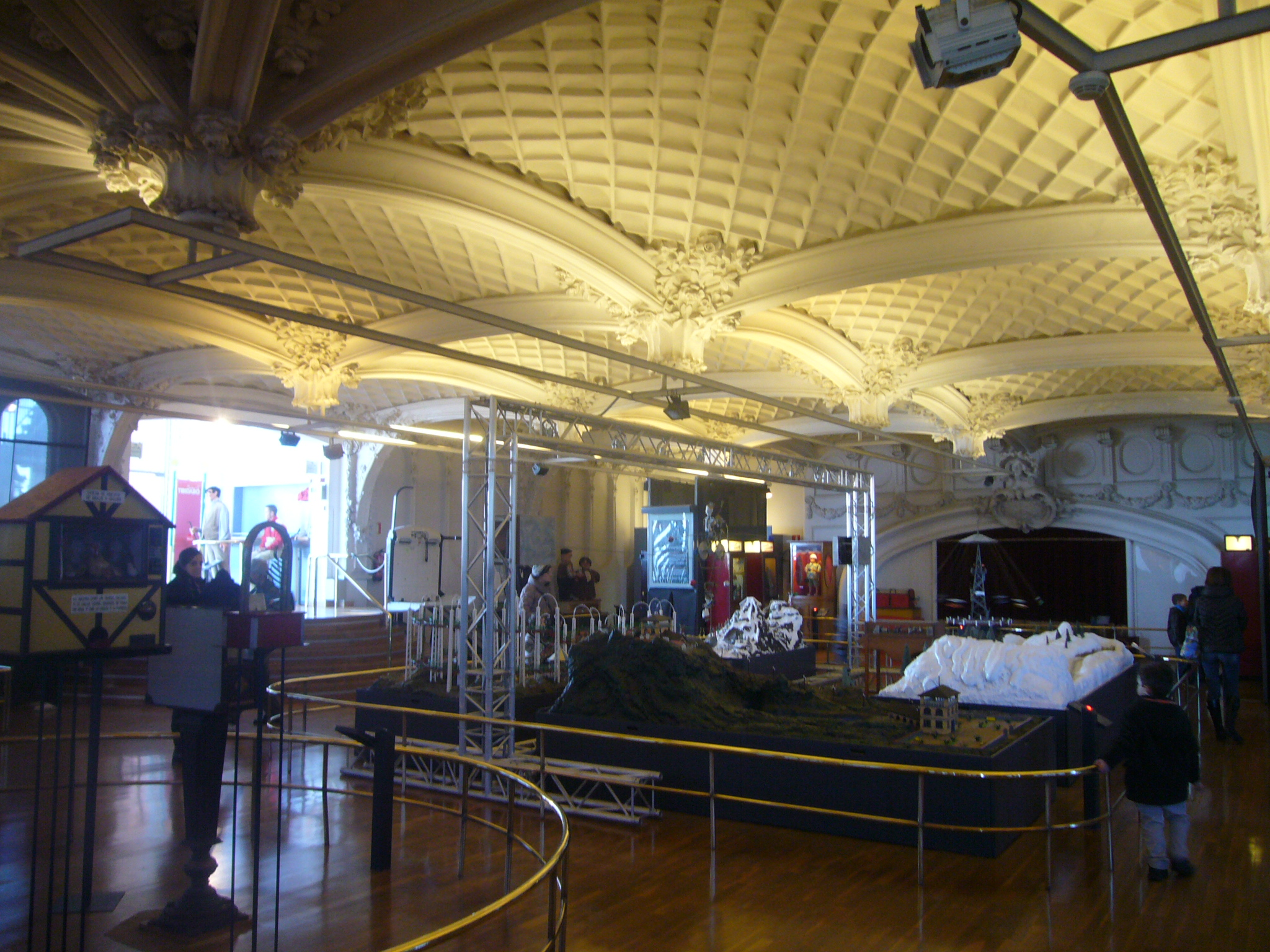 View of the Tibidabo Automata Museum